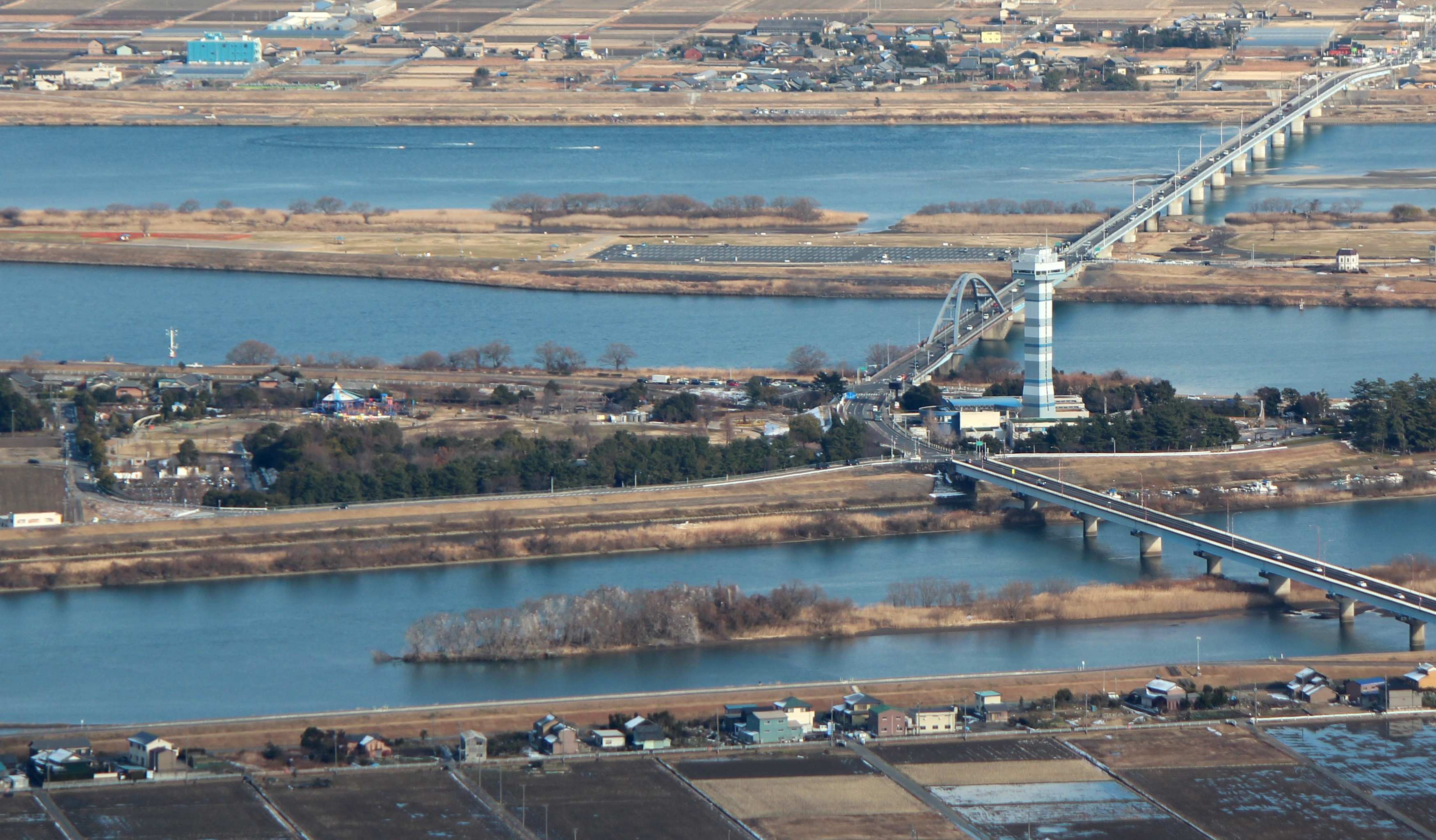 Kiso Sansen Park Center seen from Mount Tado in Kaizu, Gifu prefecture, Japan.